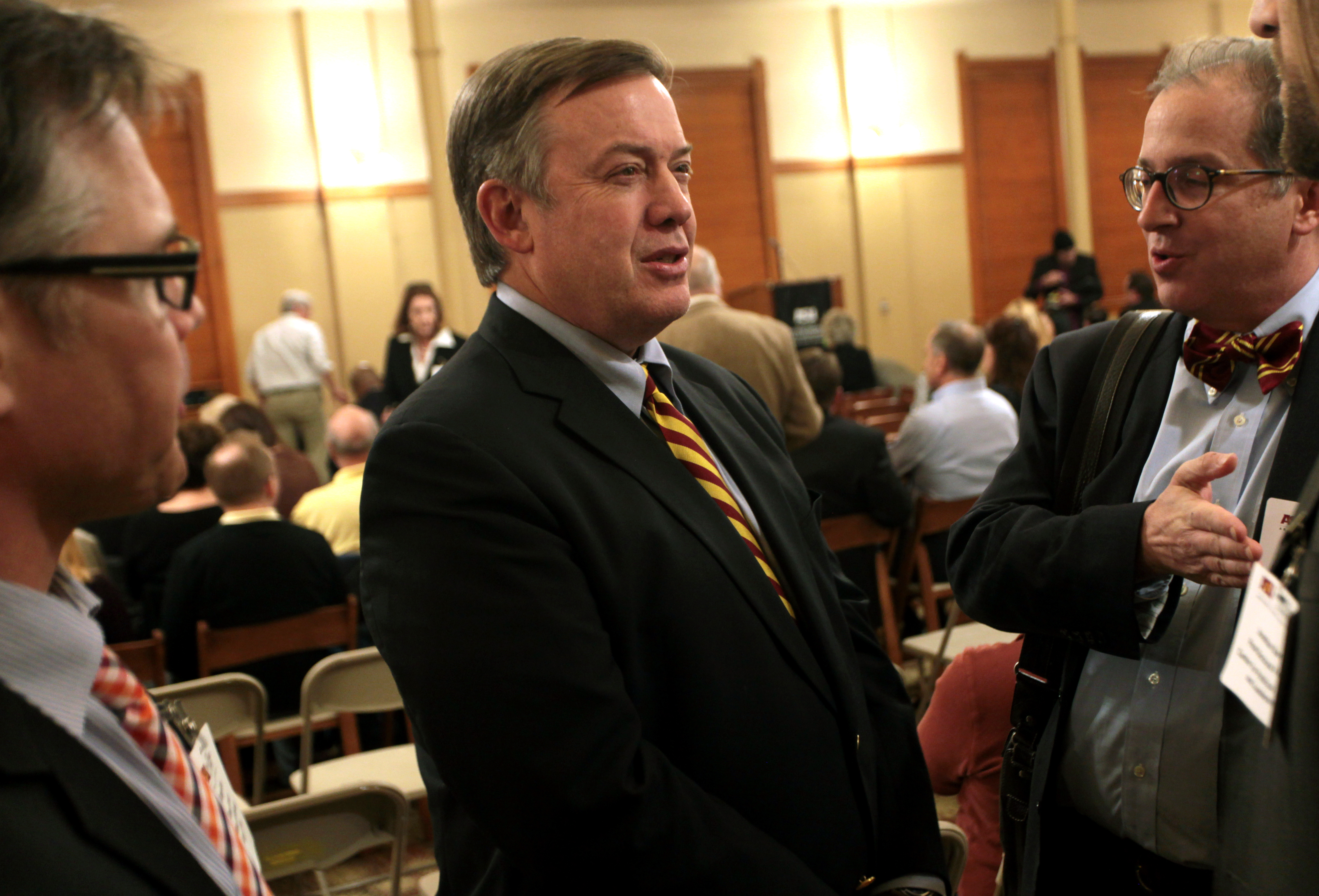 Michael Crow speaking at an event in Tempe, Arizona.